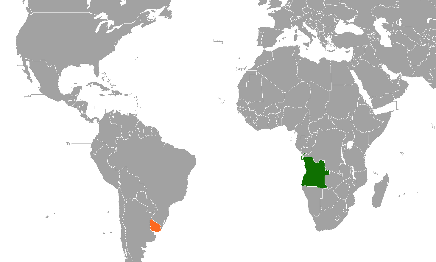 Map showing locations of Angola and Uruguay